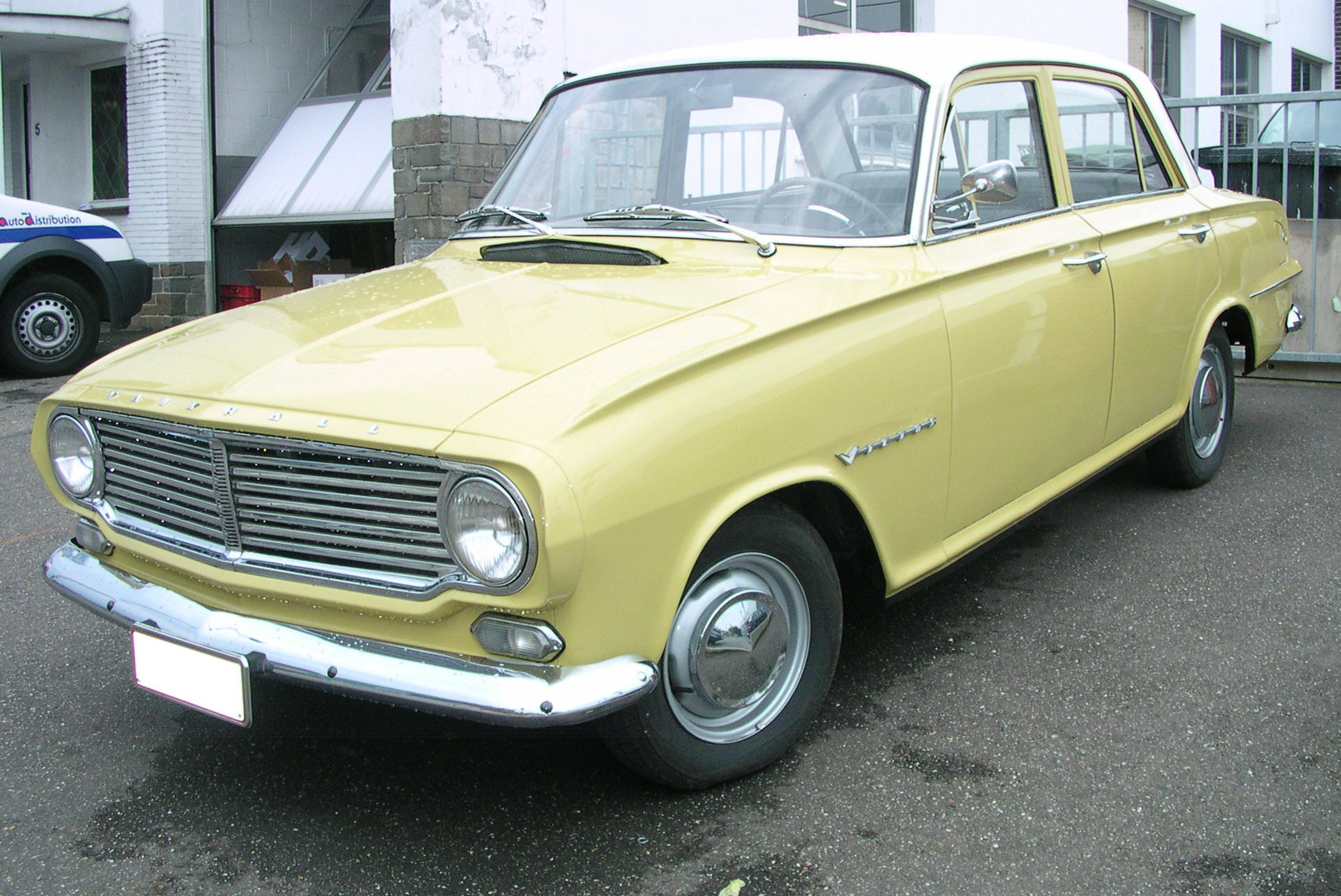 Vauxhall FB Victor, seen between Visé and Soumagne